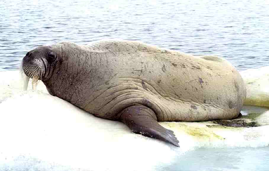 Old lonely bull I, Atlantic walrus (Odobenus rosmarus rosmarus) on ice flow in Foxe Basin (Nunavut, Canada)